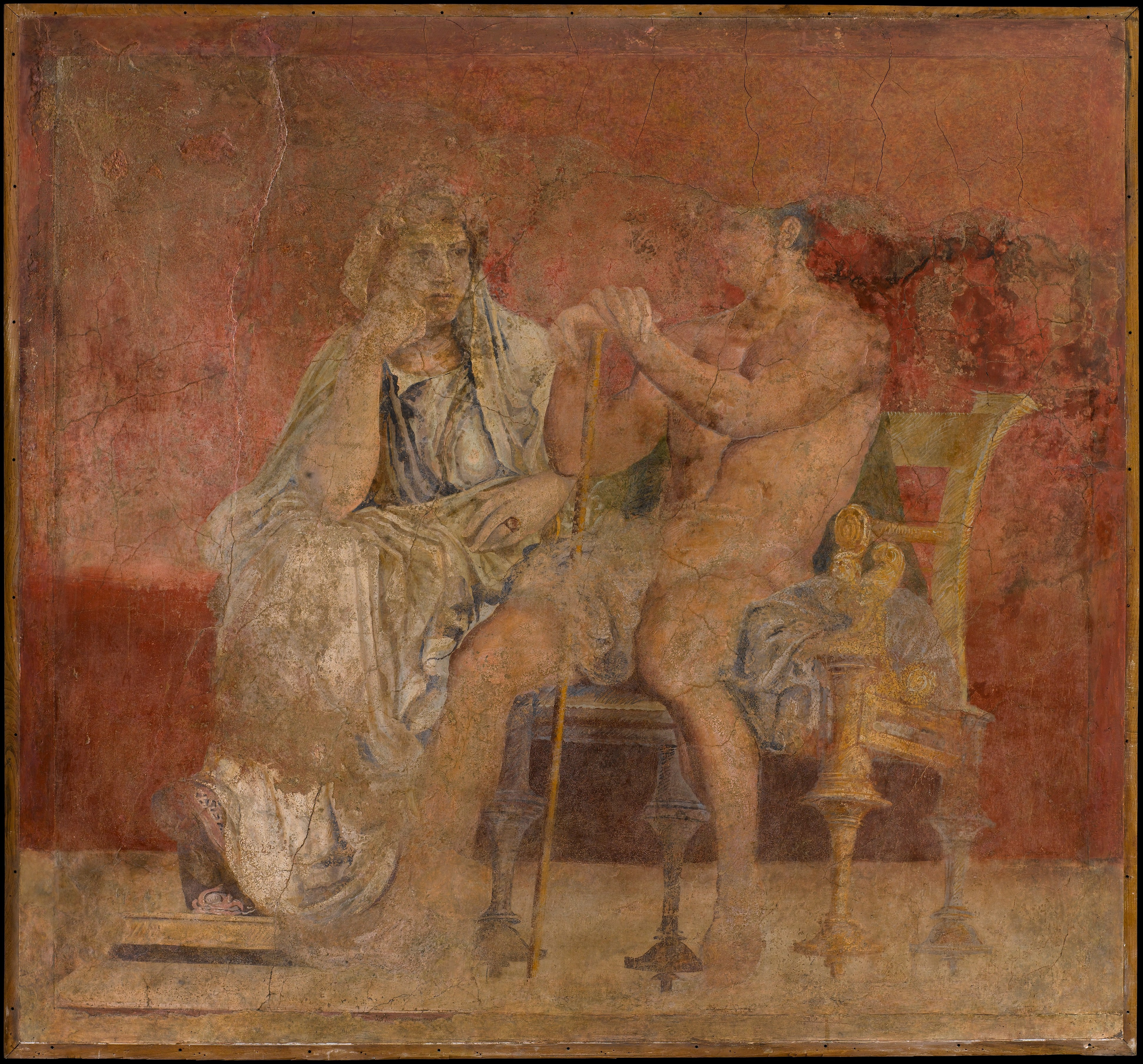 Roman; Wall painting; Miscellaneous-Paintings